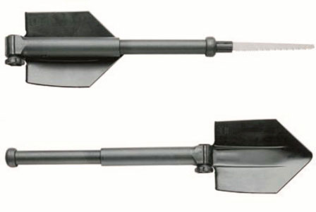 Glock Feldspaten (field spade) entrenching tool. This entrenching tool features a hardened metal spade blade that can be locked in 3 positions and can be used for digging, shoveling and chopping, a telescopic handle made out of fiberglass reinforced nylon containing a 175 millimetres (6.9 in) long hardened metal sawblade. The entrenching tool weighs 650 g (22.93 oz) and fully extended is 630 millimetres (25 in) long. The spade and handle can be collapsed and shortened for easy transport and storage into a 260 millimetres (10 in) x 150 millimetres (5.9 in) x 60 millimetres (2.4 in) package. The entrenching tool is supplied with a nylon storage/transport pouch that can be attached to a belt or backpack.